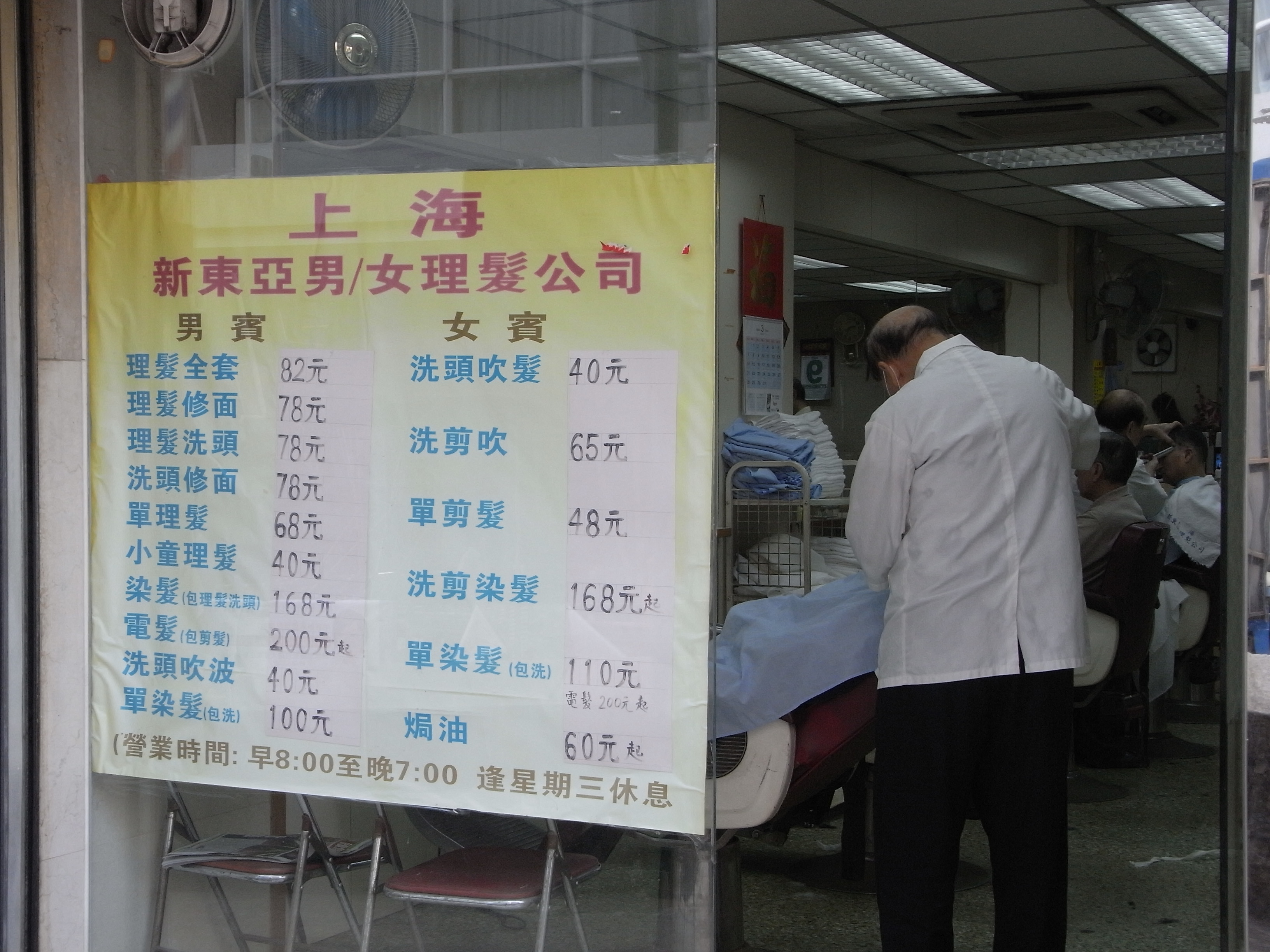 西環 雀仔橋 上海zh:理髮店